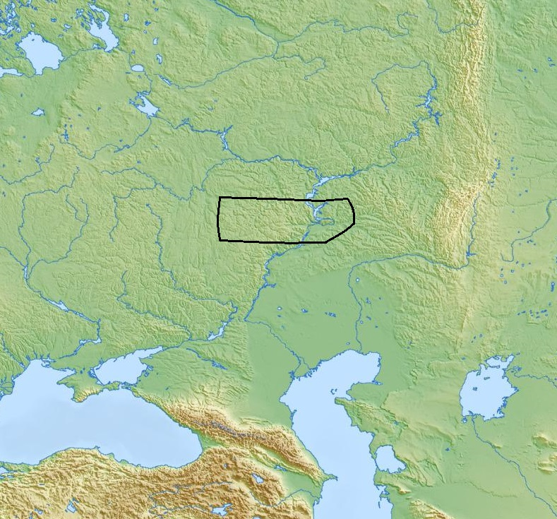 Map of the Samara culture, based on a map printed at page 499 in Encyclopedia of Indo-European Culture, which was edited by J. P. Mallory and Douglas Q. Adams, and published by Taylor & Francis in 1997.